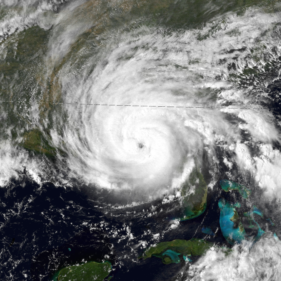 Hurricane Frederic at peak intensity near landfall on Dauphin Island on September 12, 1979